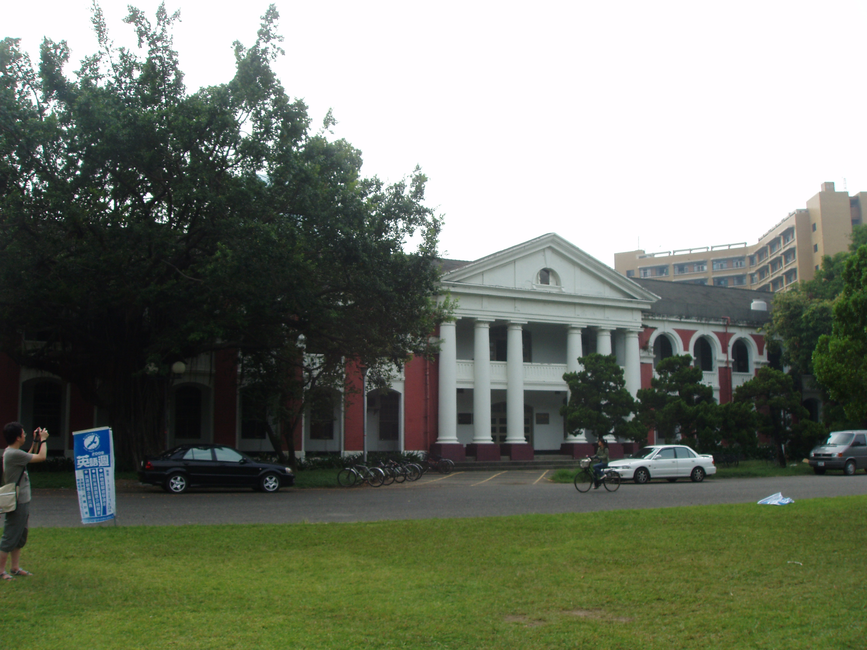 as shown.